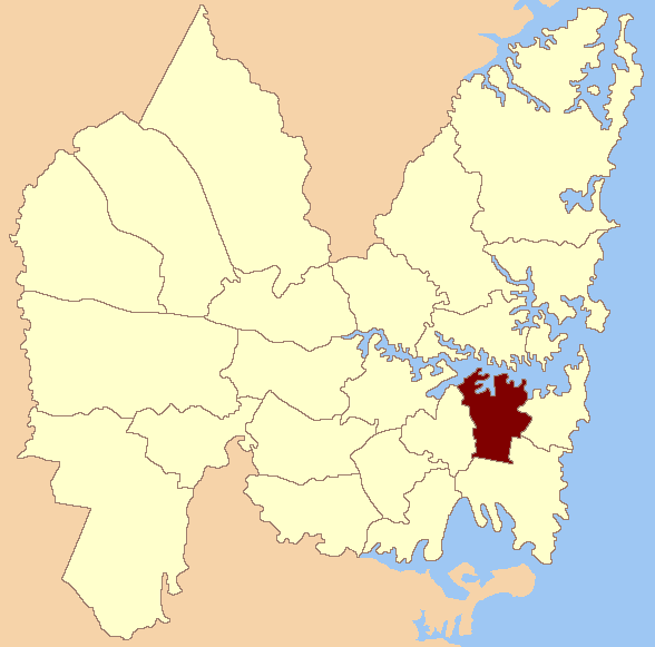 Location of the Australian House of Representatives Division within Sydney in New South Wales, as it existed at the 2004 election.